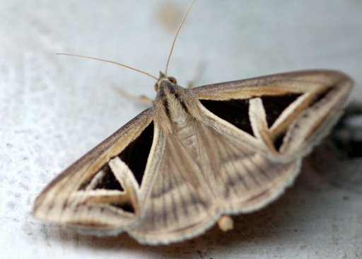 Trigonodes hyppasia Family "Noctuidae" and Subfamily "Catocalinae"